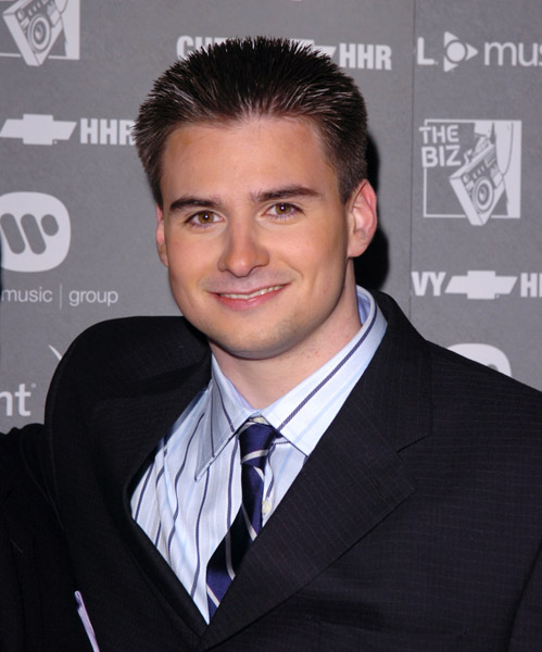 The Biz Finale